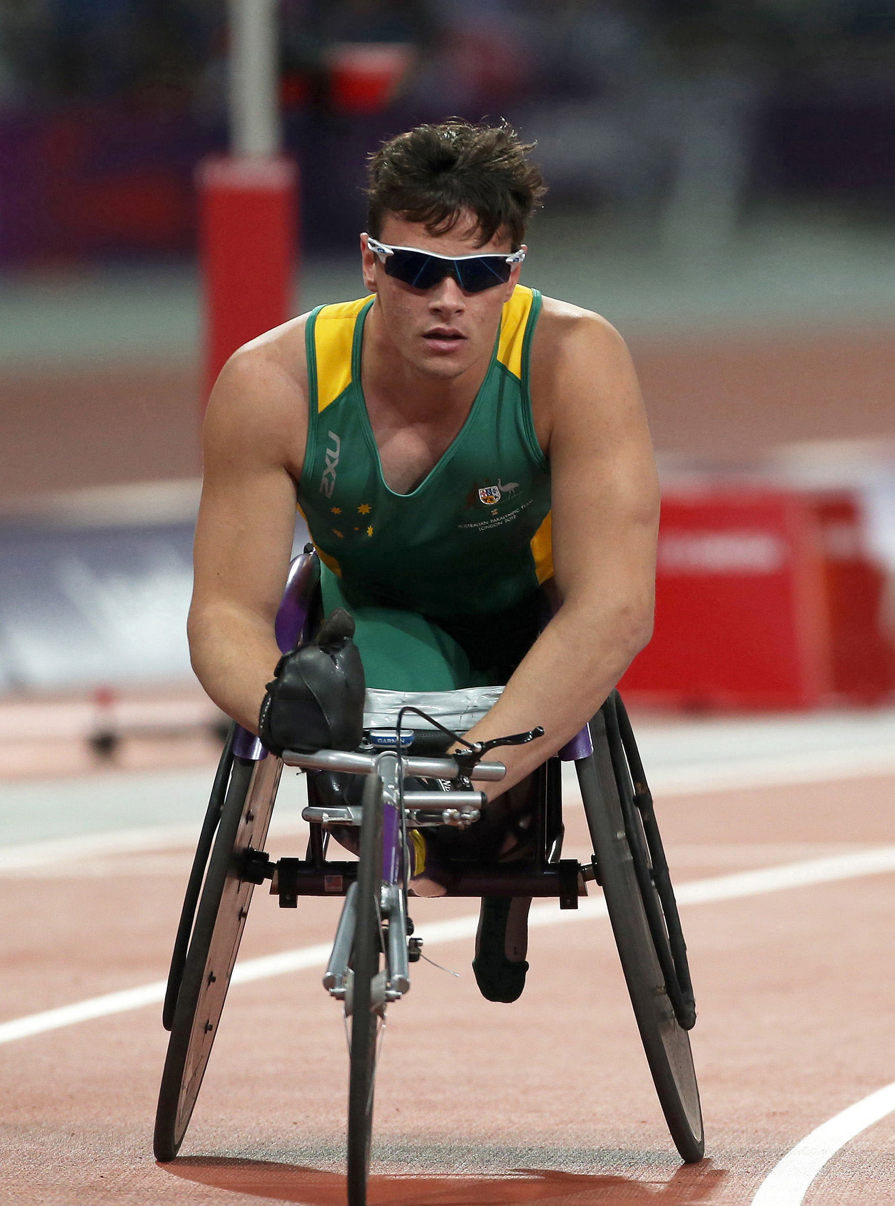 Photograph of Australian Paralympic team member Jake Lappin at the 2012 Summer Paralympic Games in London